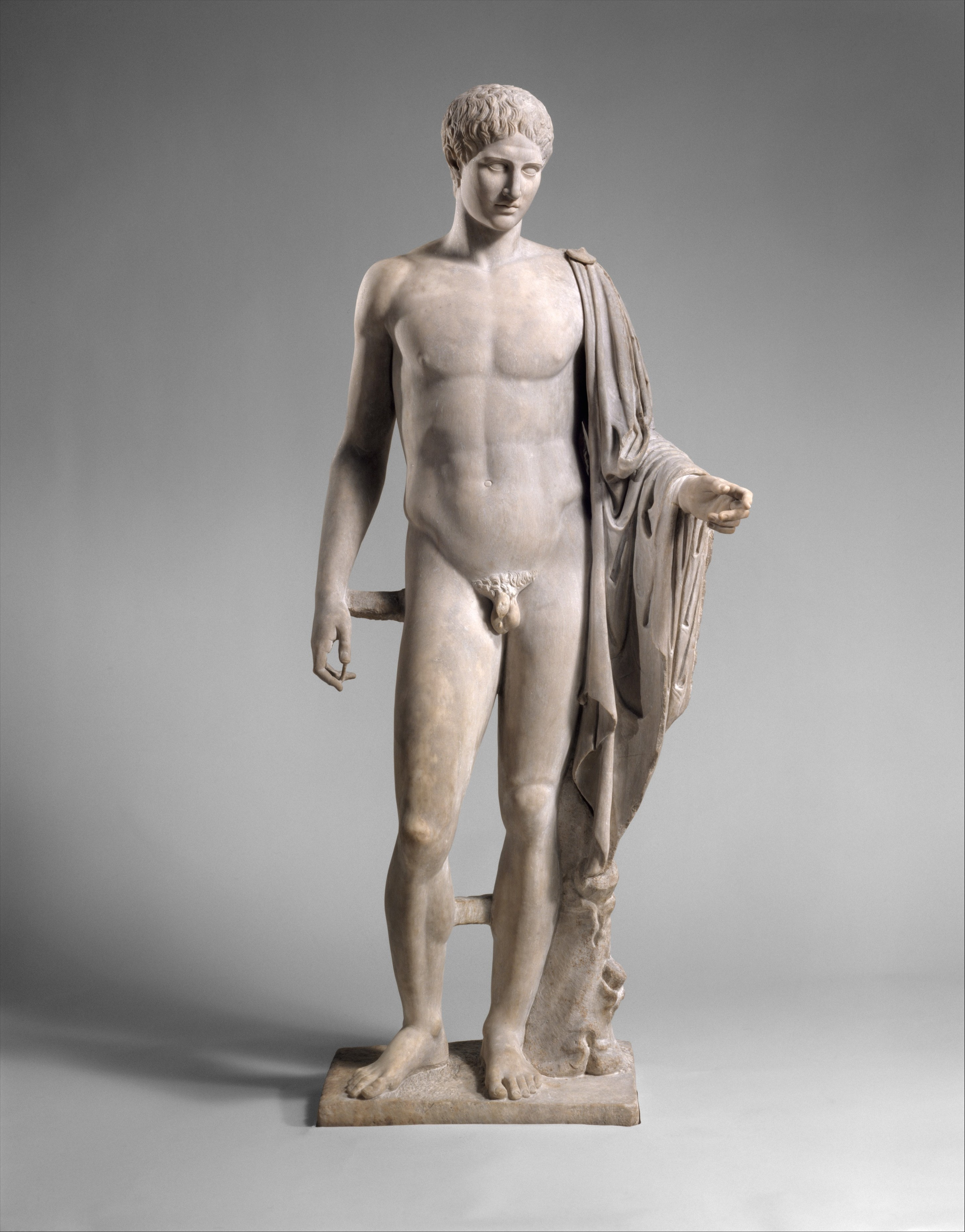 Roman; Statue of Hermes; Stone Sculpture